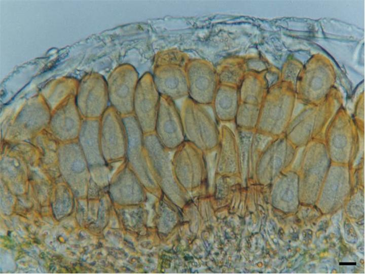 Teliospores of Puccinia thaliae. Scale bar = 10 µm.